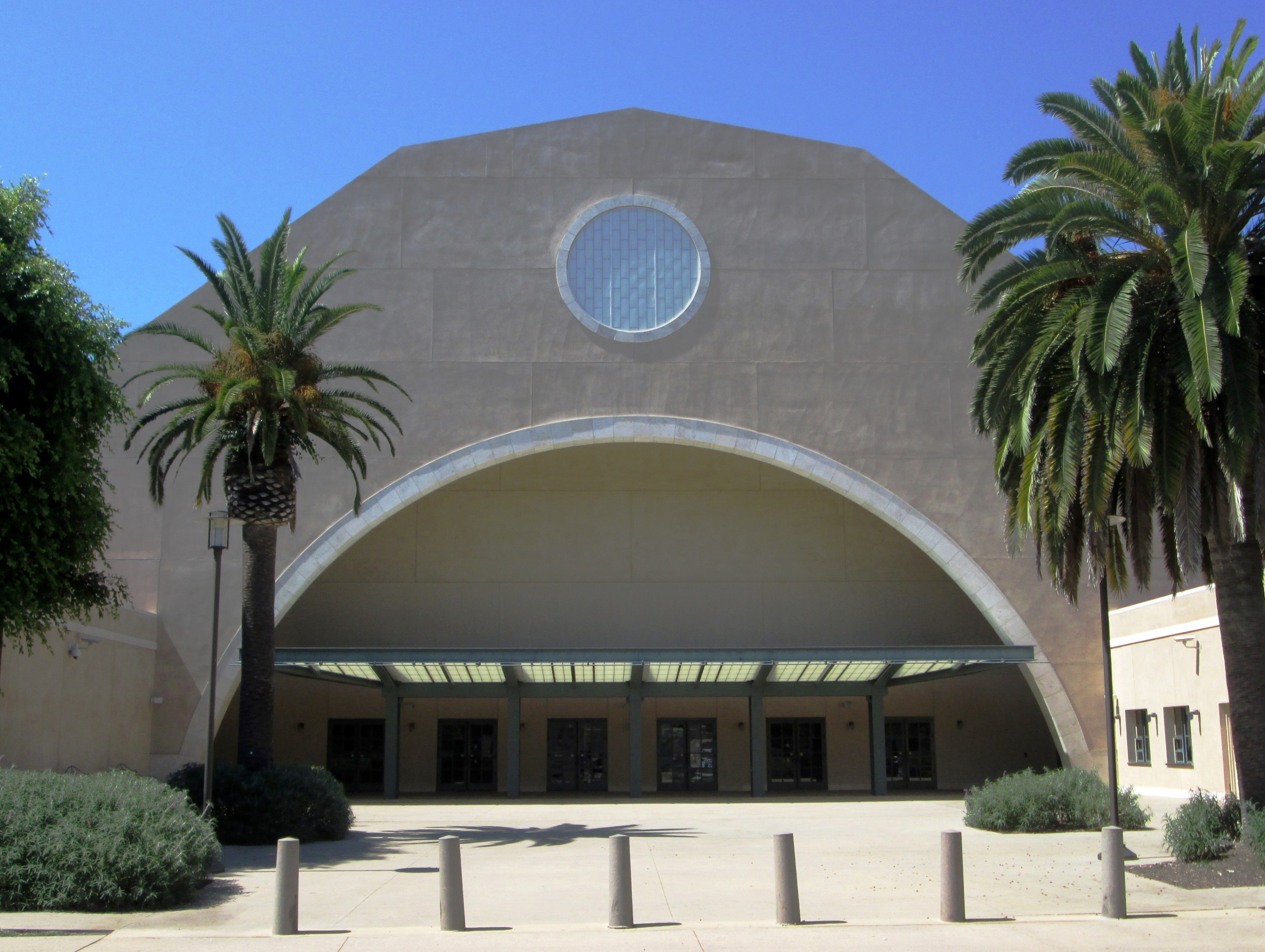 The Recreation Center of Soka University of America.